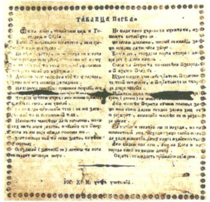 "Tablica pervaja" - a primer by Jordan HadziKonstantinov - Dzinot from 1845